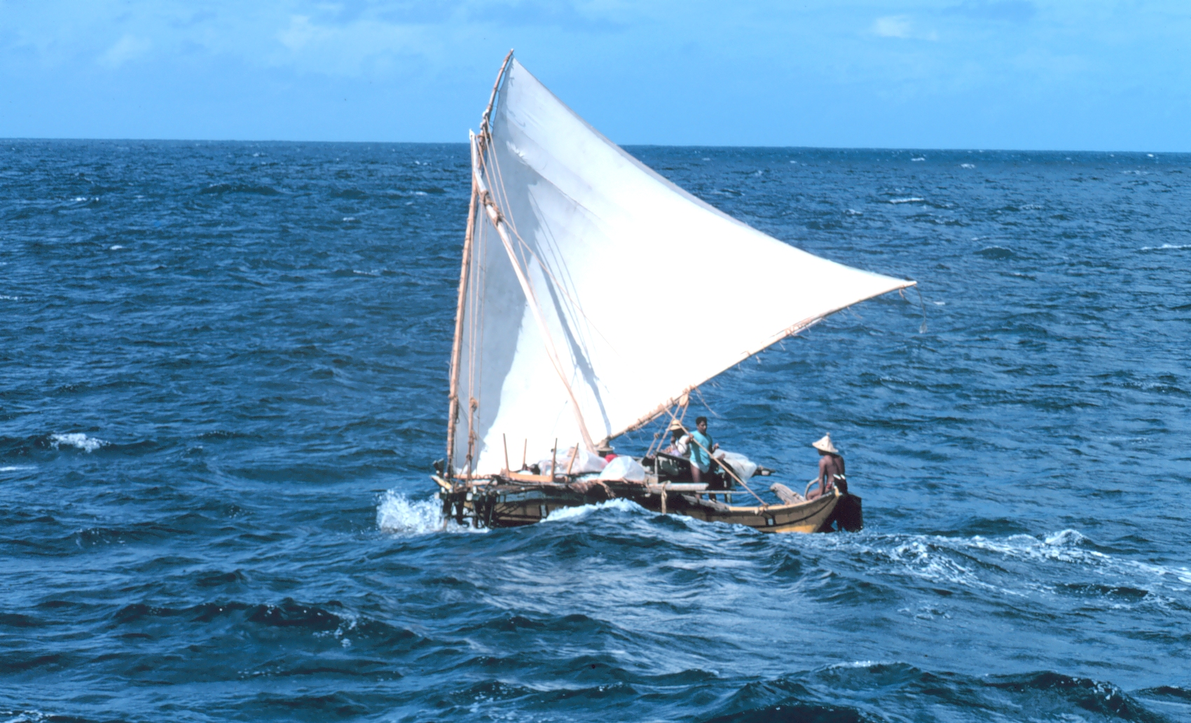 Caroline sailing outrigger or proa, using the "crabclaw" or "oceanic lateen" sail for power. Pohnpei.